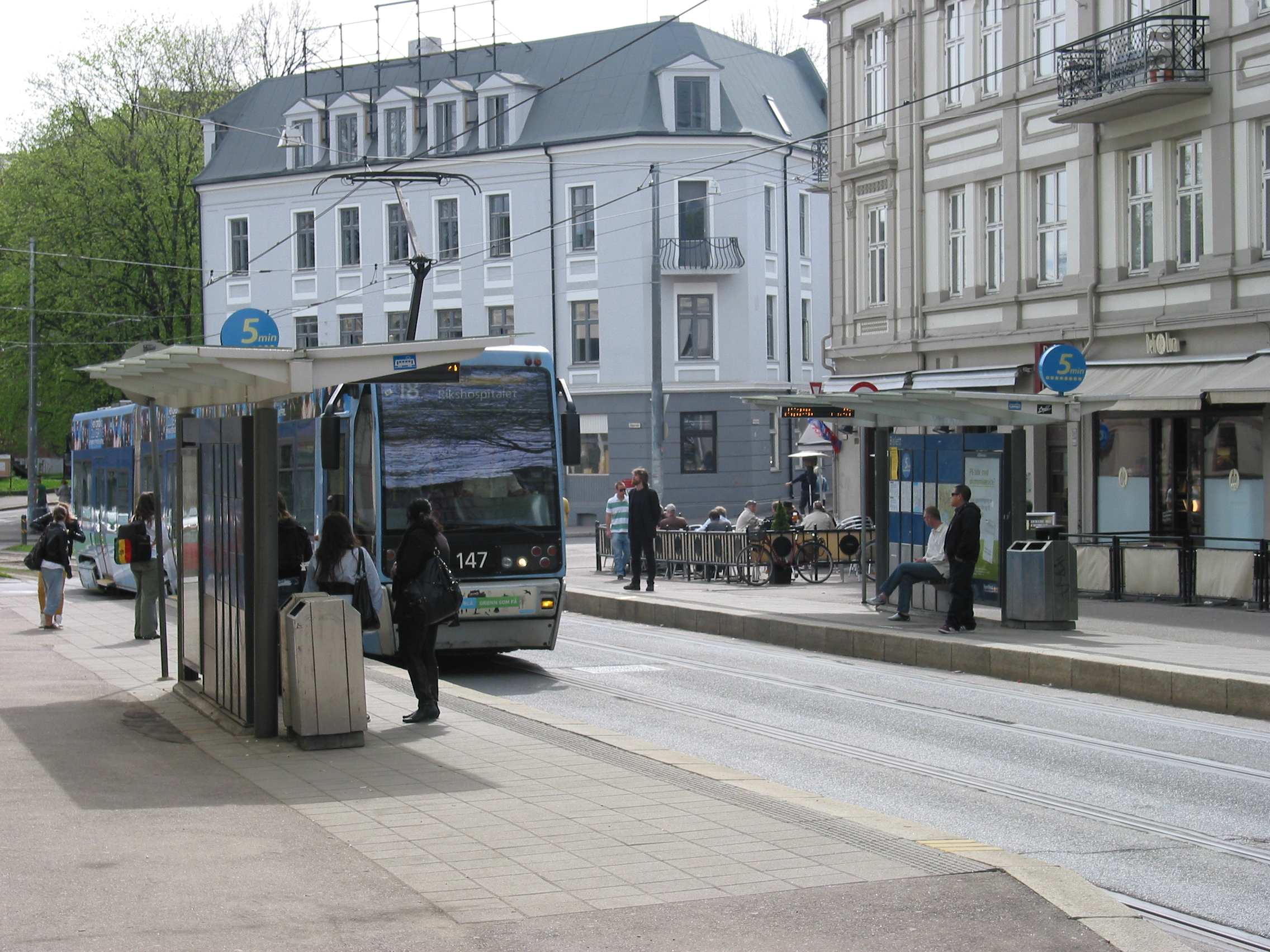 Bislett station, Oslo. Looking south.